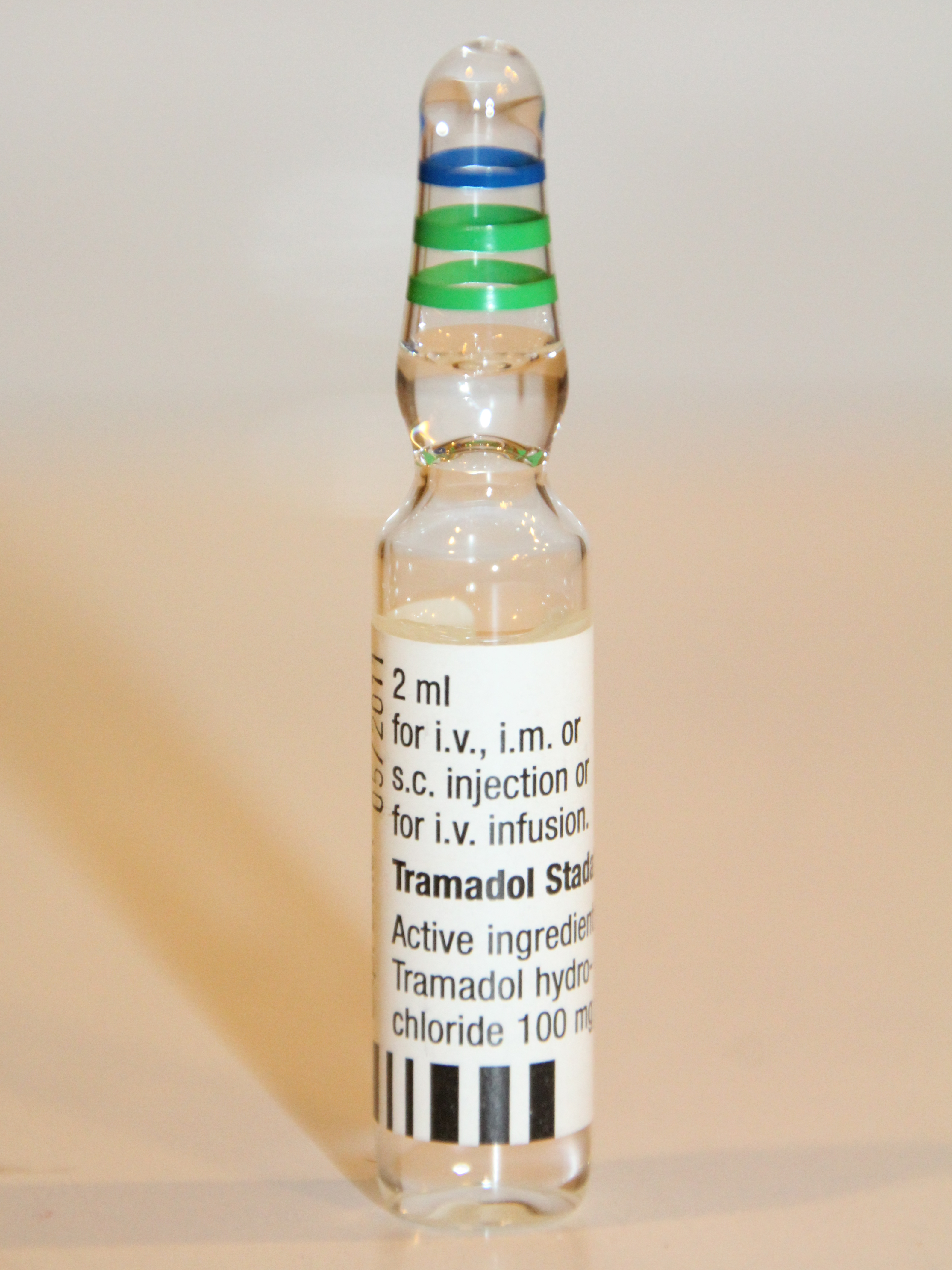 A sample of Tramadol Hydrochloride for injection, 100 mg/ml